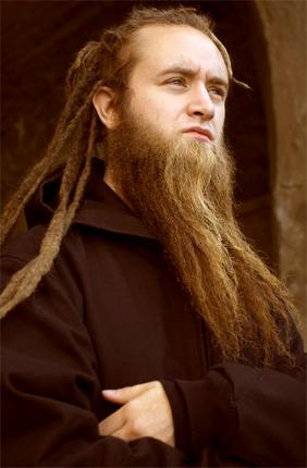 Kung Henry